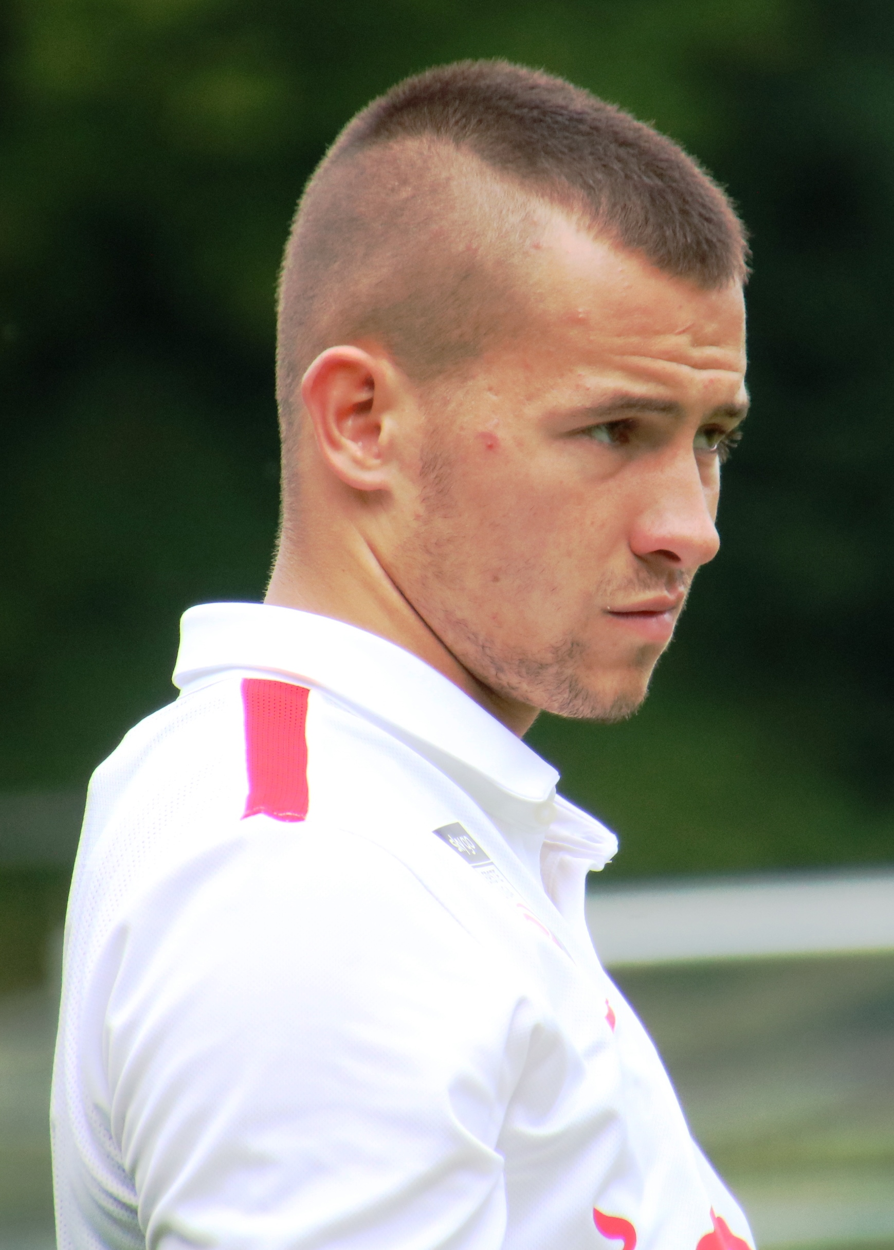 pre season match